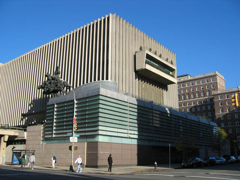 Jerome L Greene Hall, October 2004. © 2004